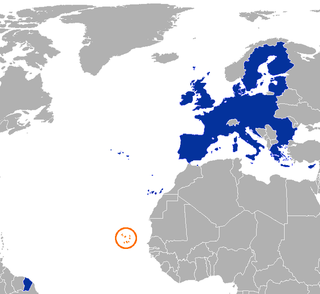 EU-Cape Verde locator.